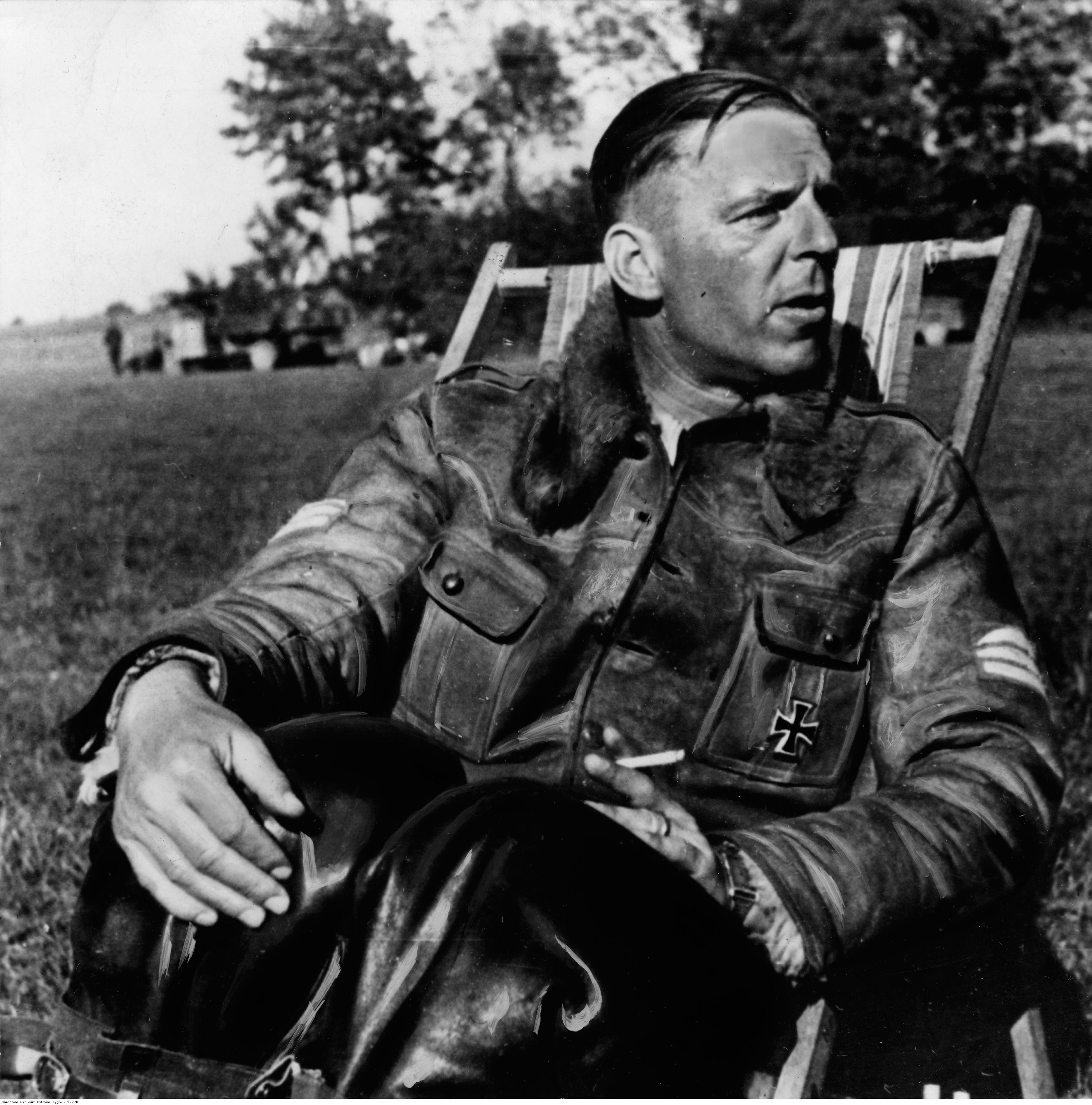 Walter Grabmann, major of the Luftwaffe while resting in a hammock.